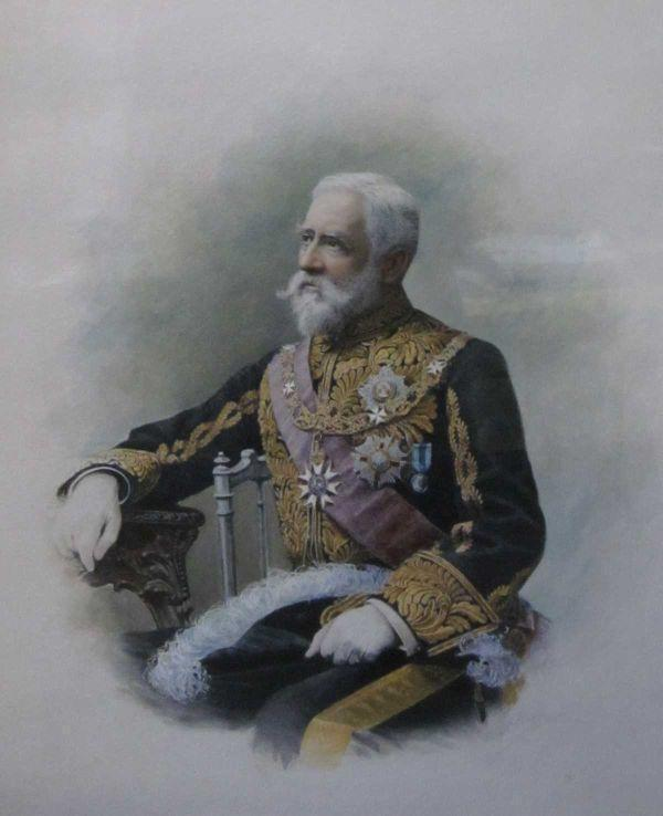 Description Eugene Picou (1831- 1914) Portrait of Sir Edmund Monson, 1st Baronet (1841-1908), half length, seated watercolour with body colour signed lower right 53 cm x 43 cm